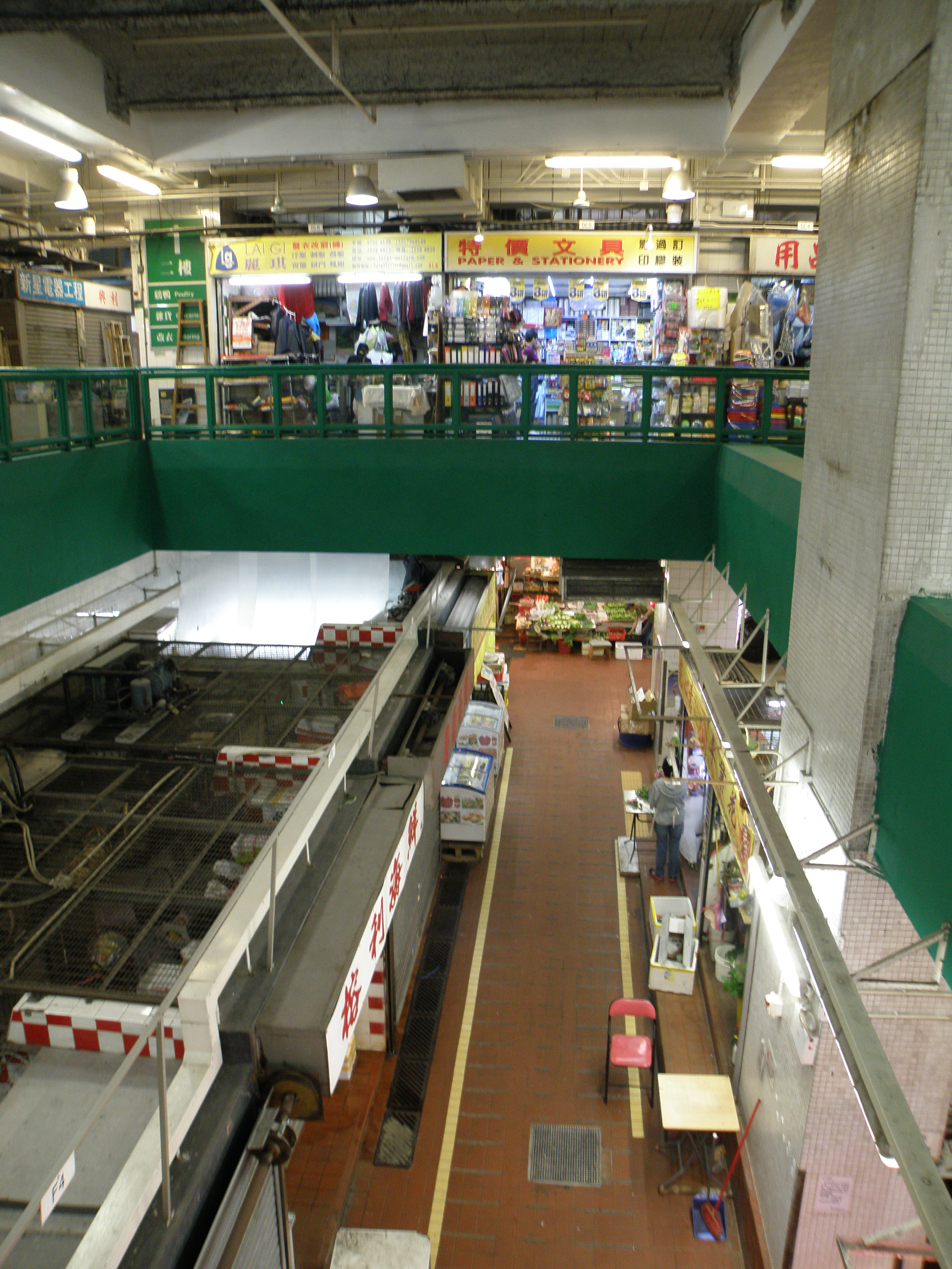 Lockhart Road Market in Wan Chai, Hong Kong.